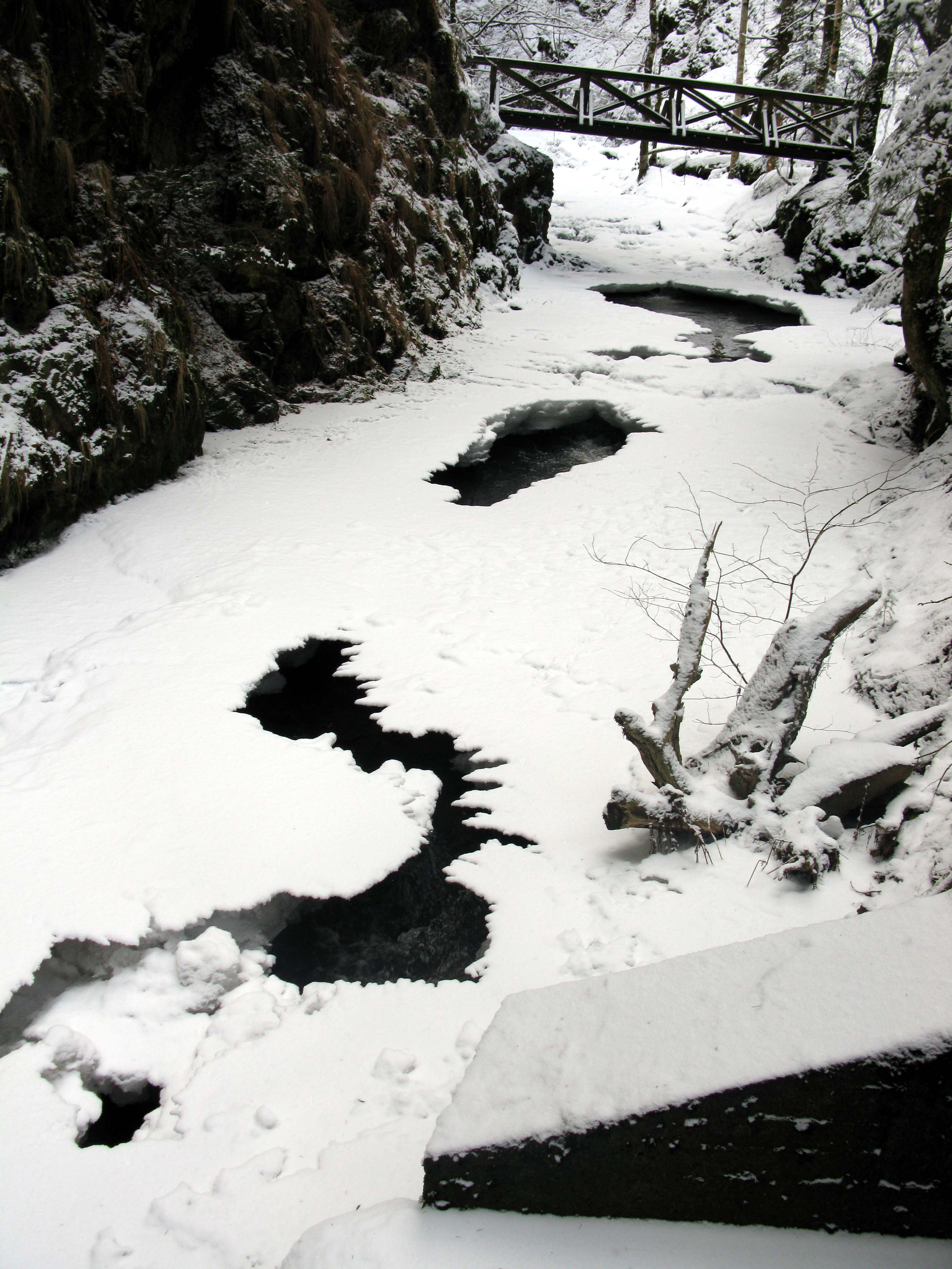 Ravenna gorge with footbridge in winter